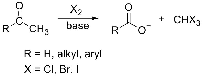 Haloform reaction scheme